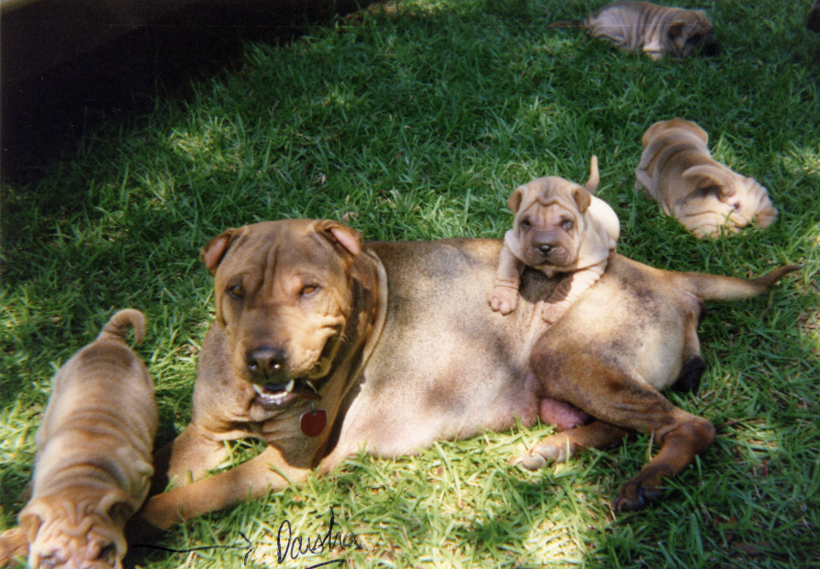 My bonemouth Chinese Shar-Pei's first litter.